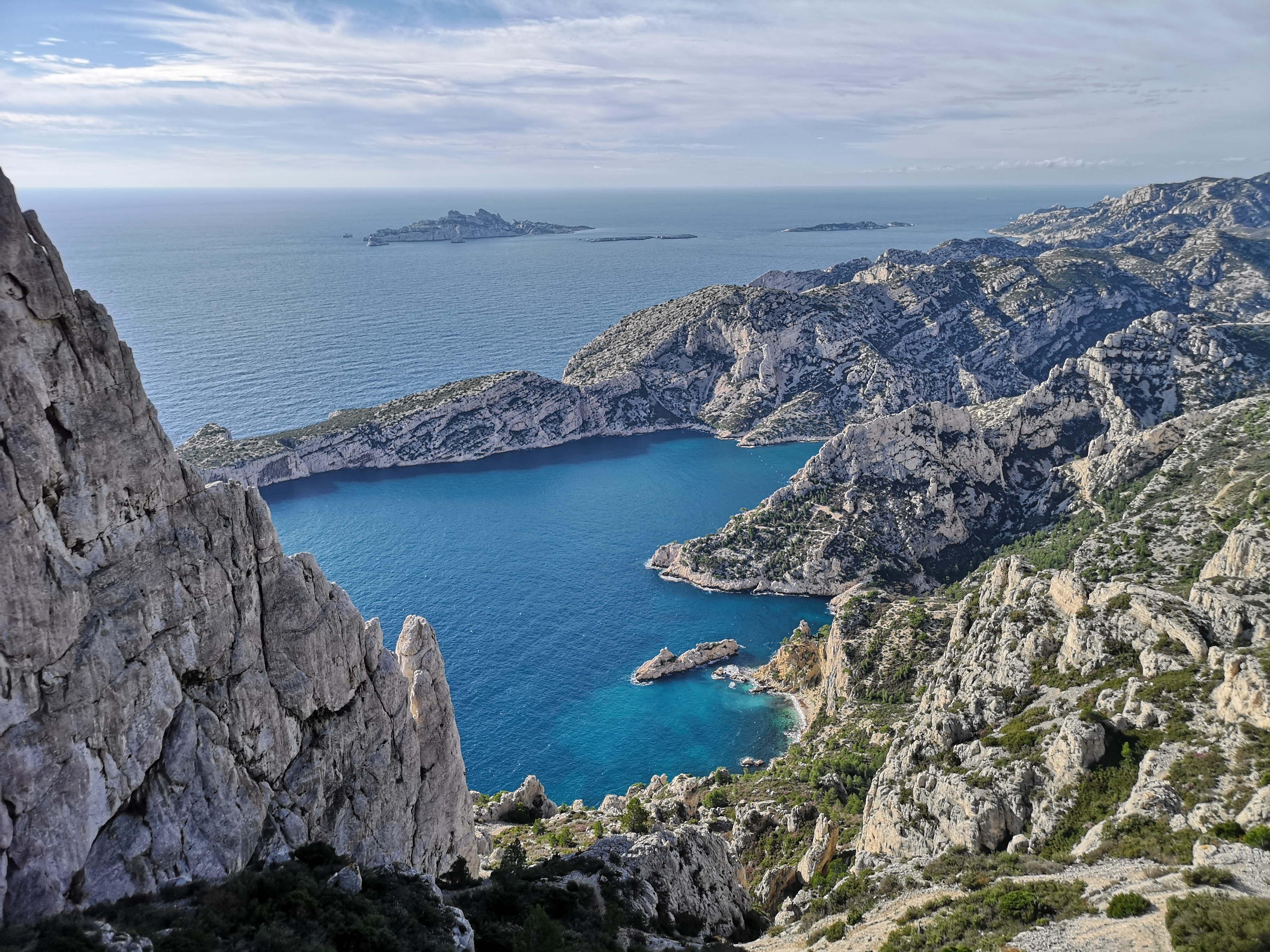 View of the creek of Sugiton, Morgiou and the island of Riou from the pass of Candelle